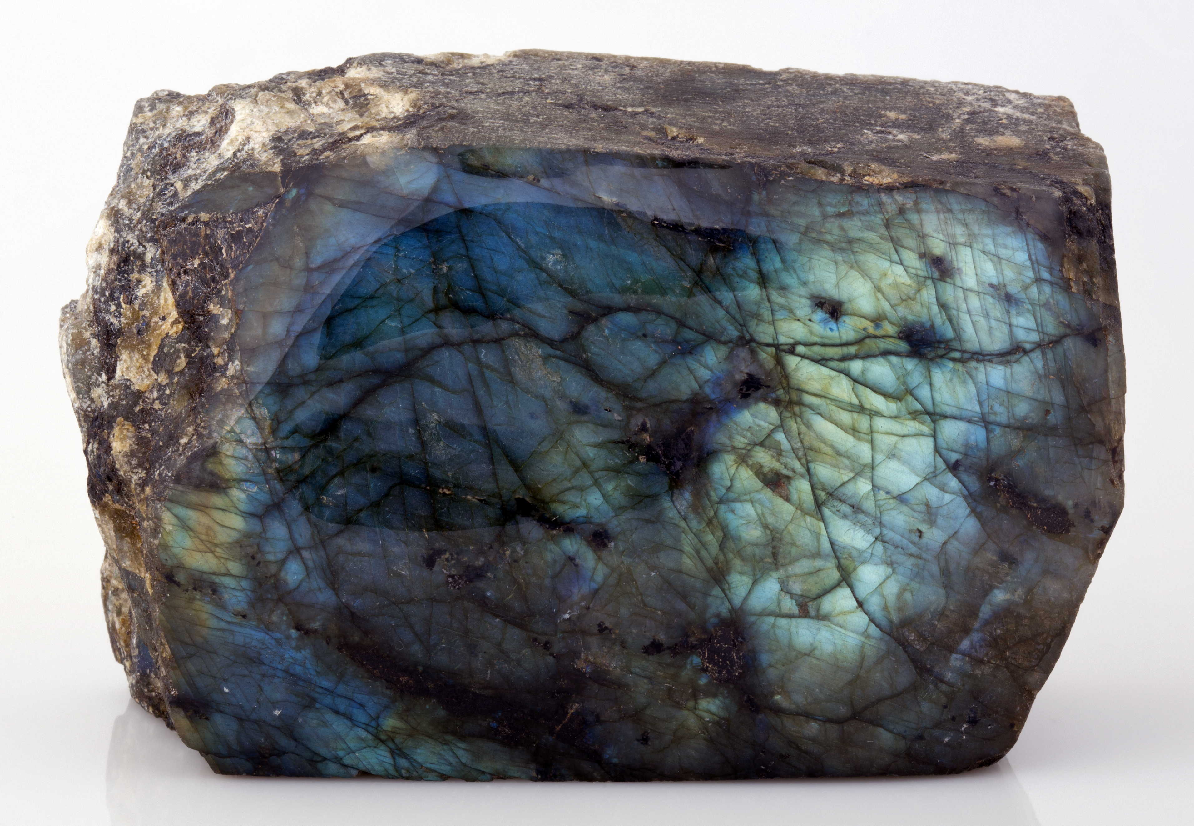 A cut and polished sample of labradorite